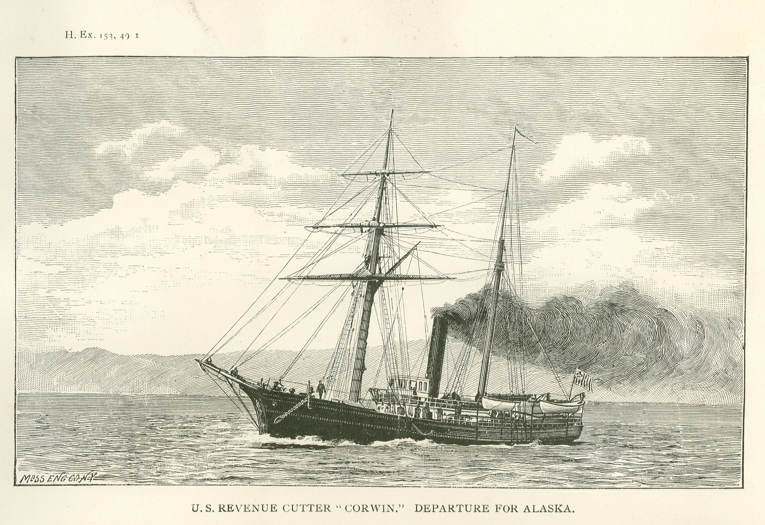 "U.S. REVENUE CUTTER "CORWIN,' DEPARTURE FOR ALASKA." Contemporary engraving.